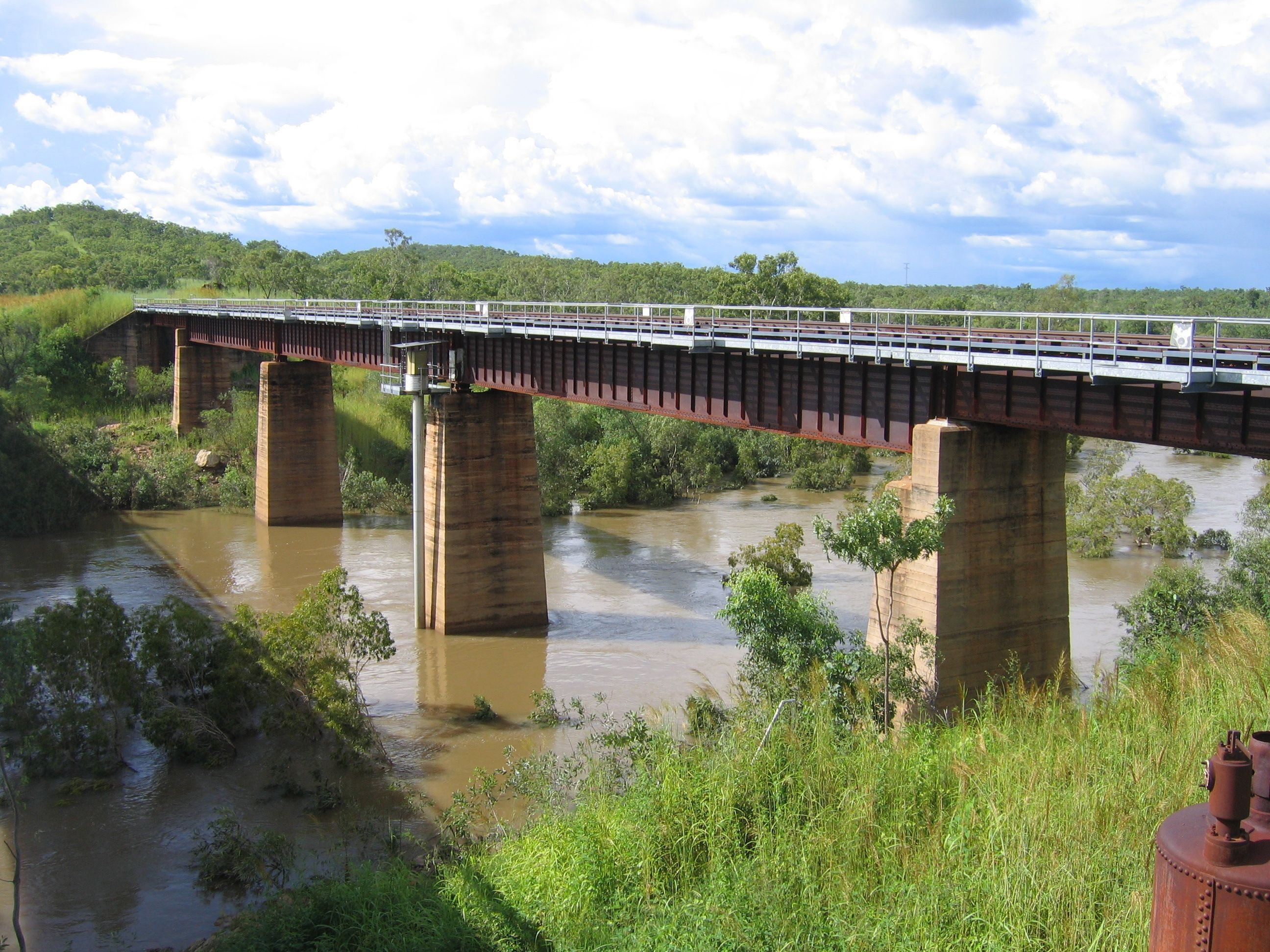 Bridge on Central Australian Railway south of Mataranka